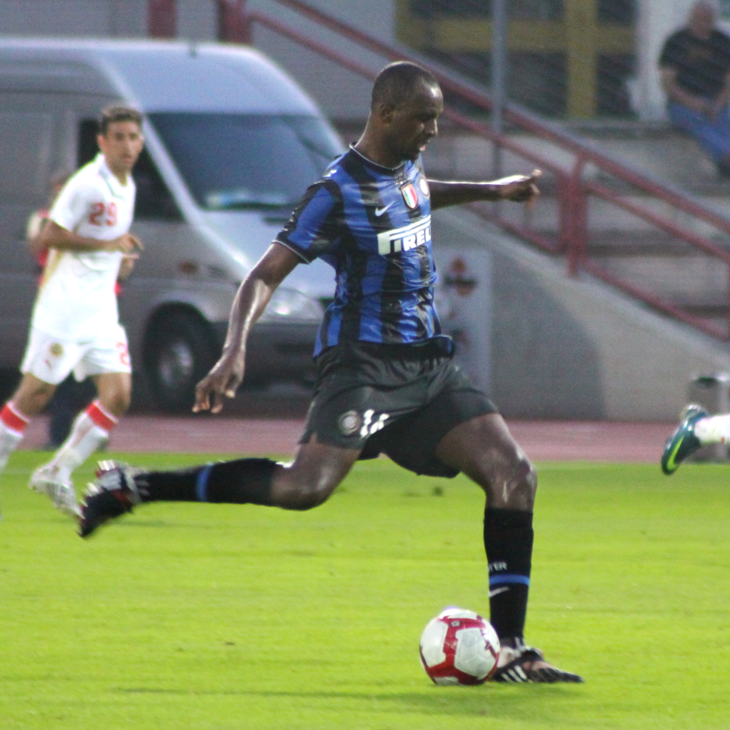 Patrick Vieira - F.C. Internazionale Milano